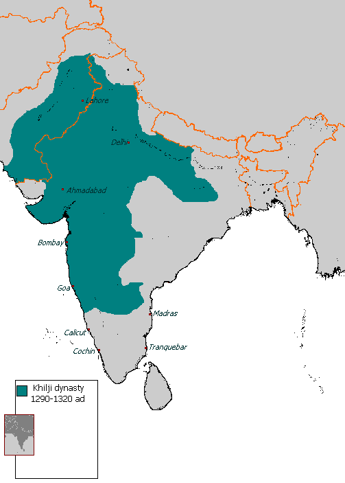 Khilji dynasty 1290 - 1320 CE